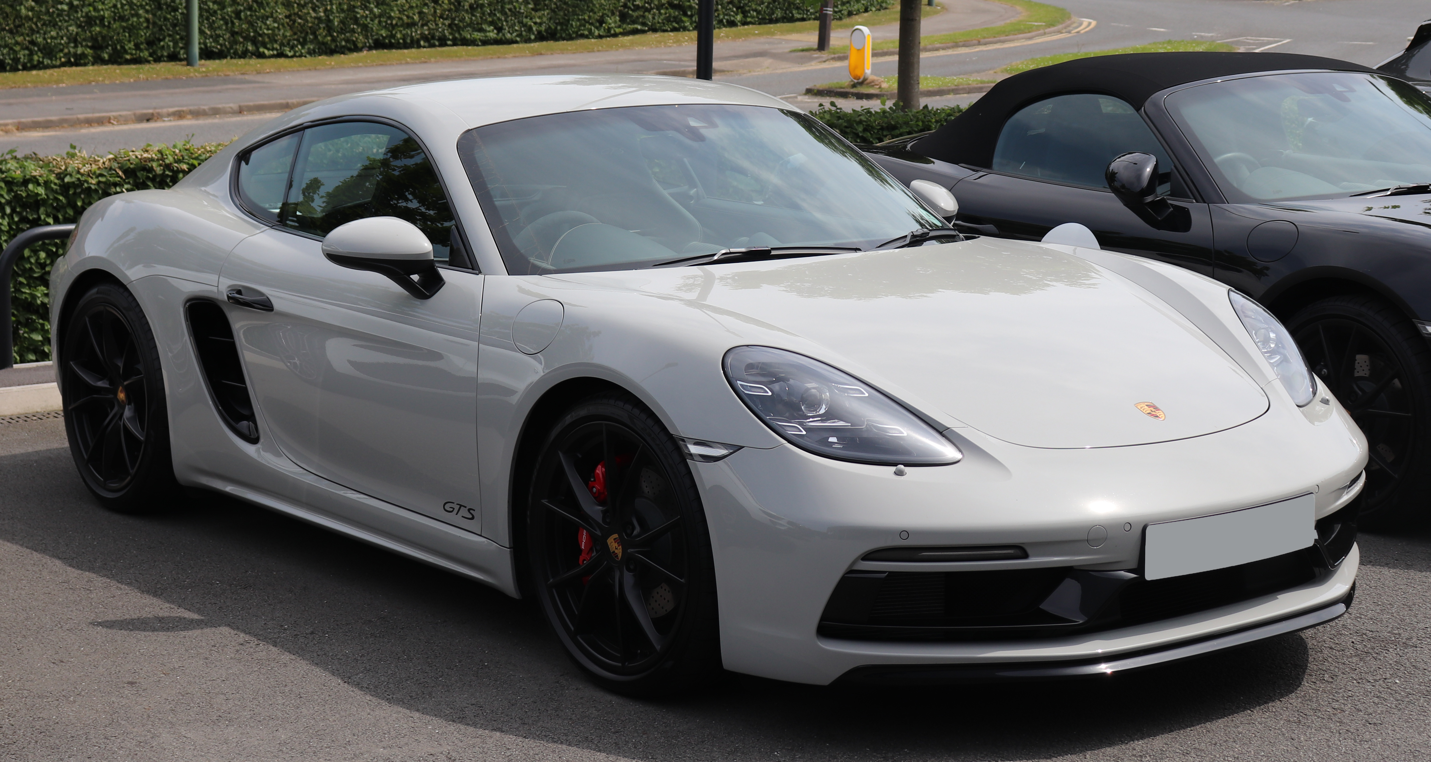 2018 Porsche 718 Cayman GTS 2.5 Taken in Solihull